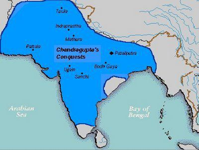 Chandragupta extended mauryan empire towards south and conqured Deccan